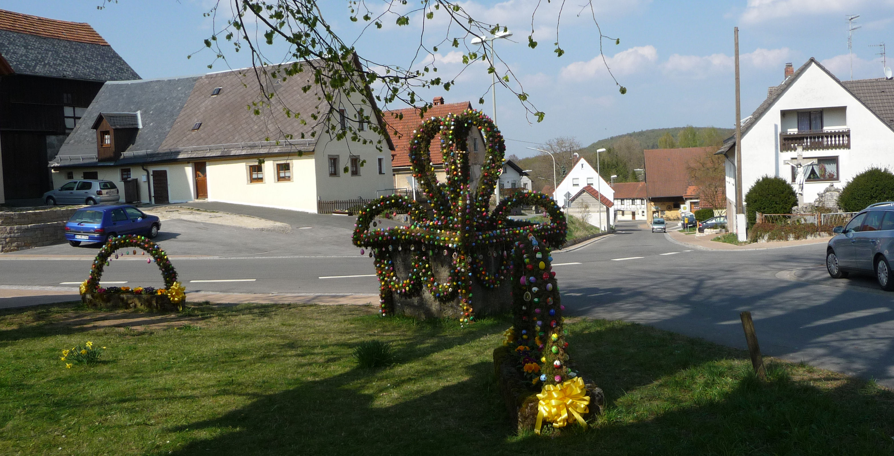 Kalteneggolsfeld, Landkreis Bamberg, Germany